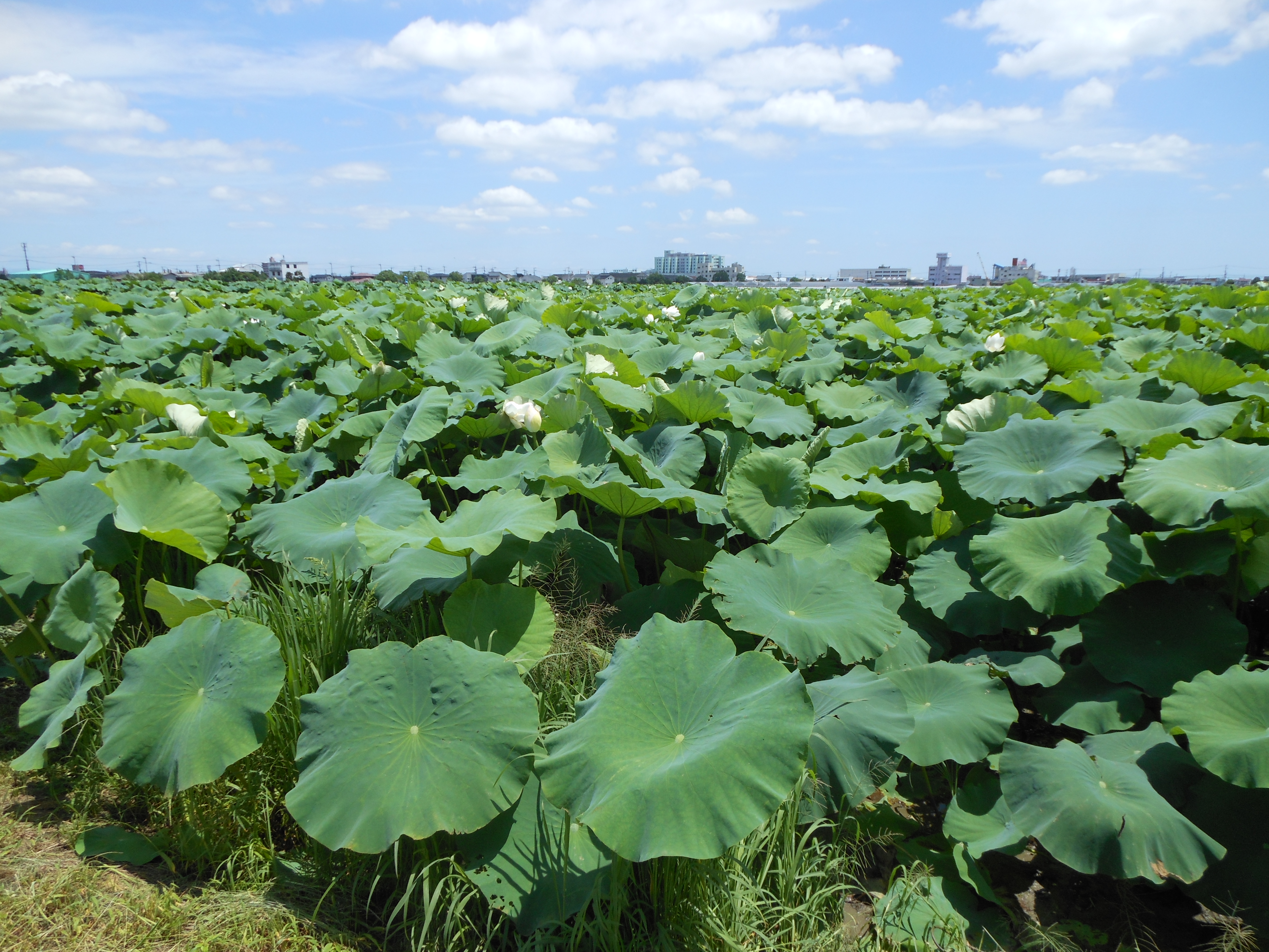 Lotus field in Kase, Saga city.